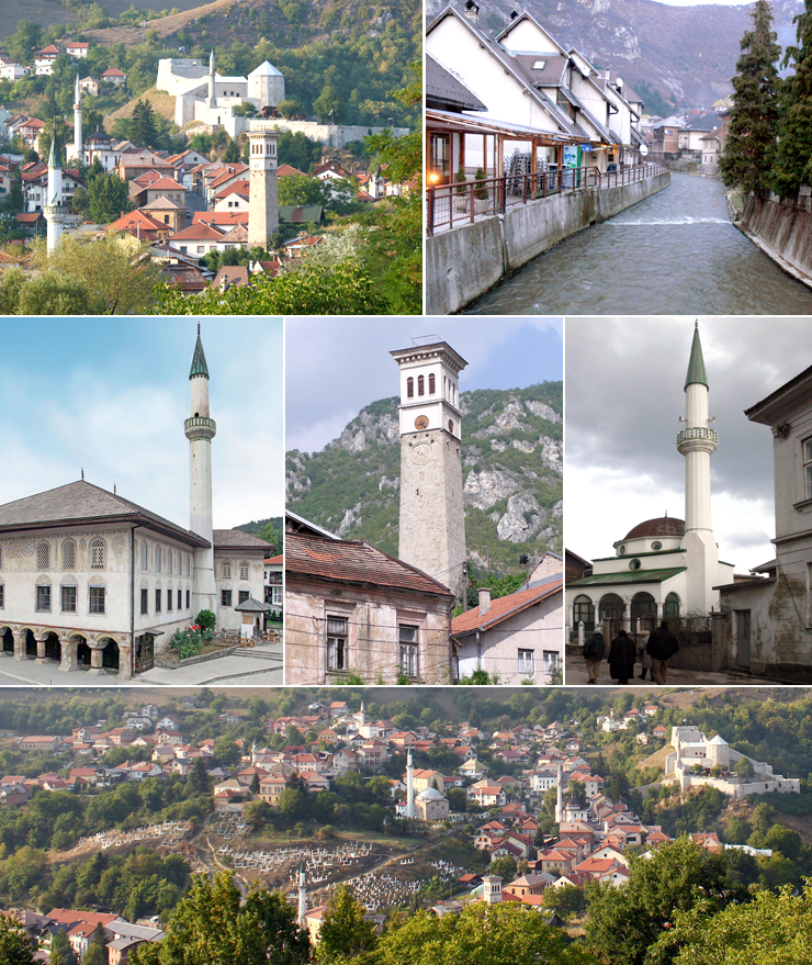 Travnik collage: Travnik panorama and fortress, Travnik Lašva creek, Travnik colorful mosque, Travnik Clock tower, Mosque in Travnik, Travnik wider panorama